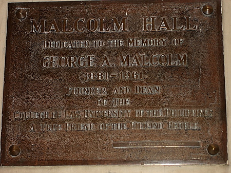 Plaque commemorating George A. Malcolm at the U.P. College of Law, Malcolm Hall, U.P. Diliman